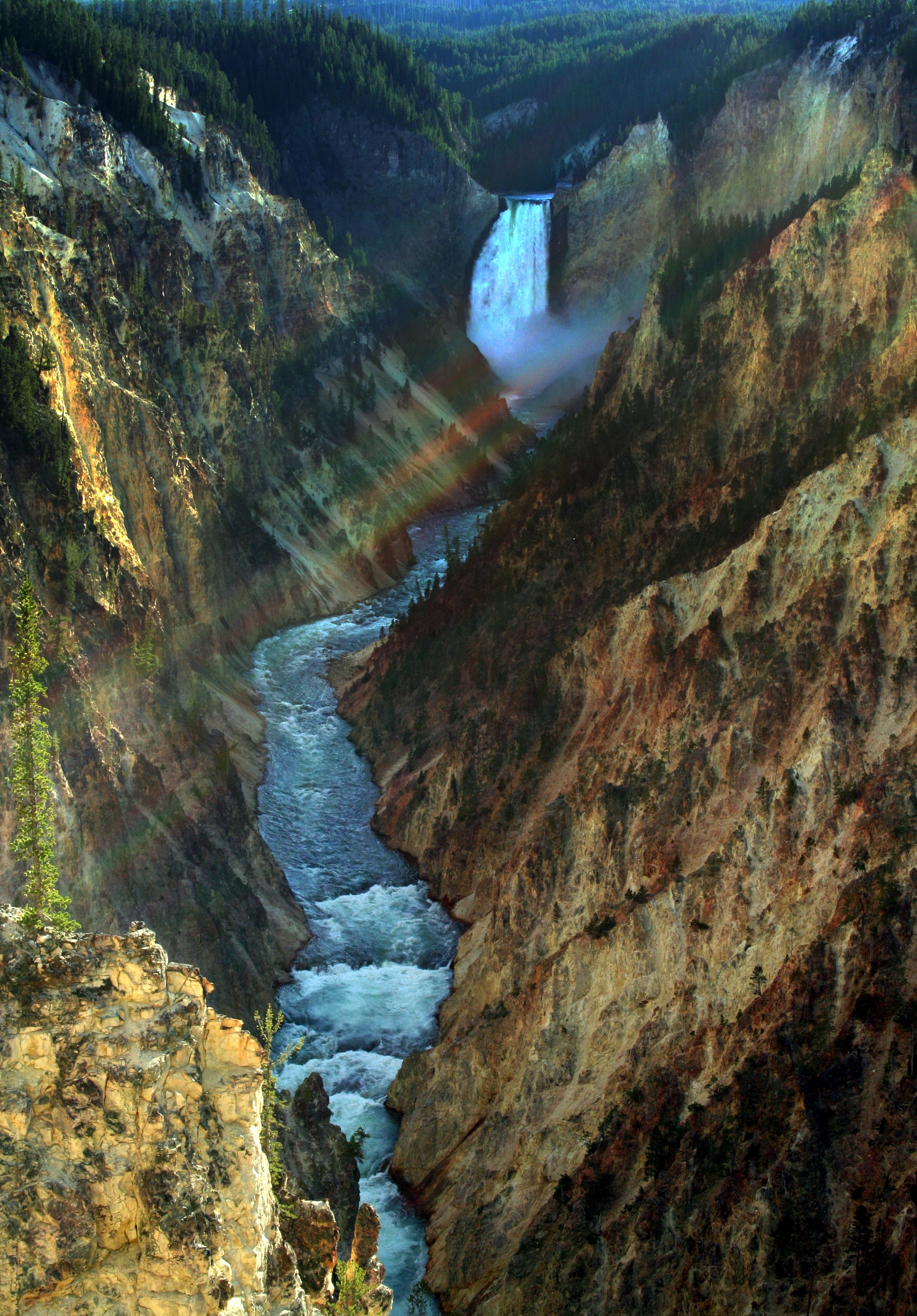 Lower Falls in the Grand Canyon of the Yellowstone, Yellowstone National Park, Wyoming, USA